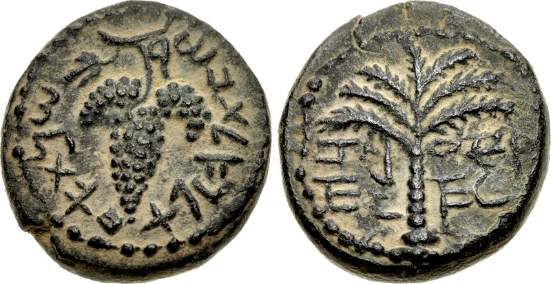 JUDAEA, Bar Kochba Revolt. 132-135 CE. Æ (18mm, 5.37 g, 11h). Dated year 1 (132/3 CE). Grape bunch on vine with small leaf; “Year One of the Redemption of Israel” (in Hebrew) around / Palm tree with two bunches of dates; “Eleazar the Priest” (in Hebrew) around. Mildenberg 147 (O1/R1); Meshorer 225; Hendin 1380; Bromberg 255 (same dies); Shoshana I 20244 (same dies); Spaer 256 (same dies).